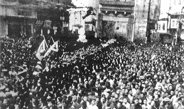 Shanghai people celebrating Japanese surrender on 15th August 1945